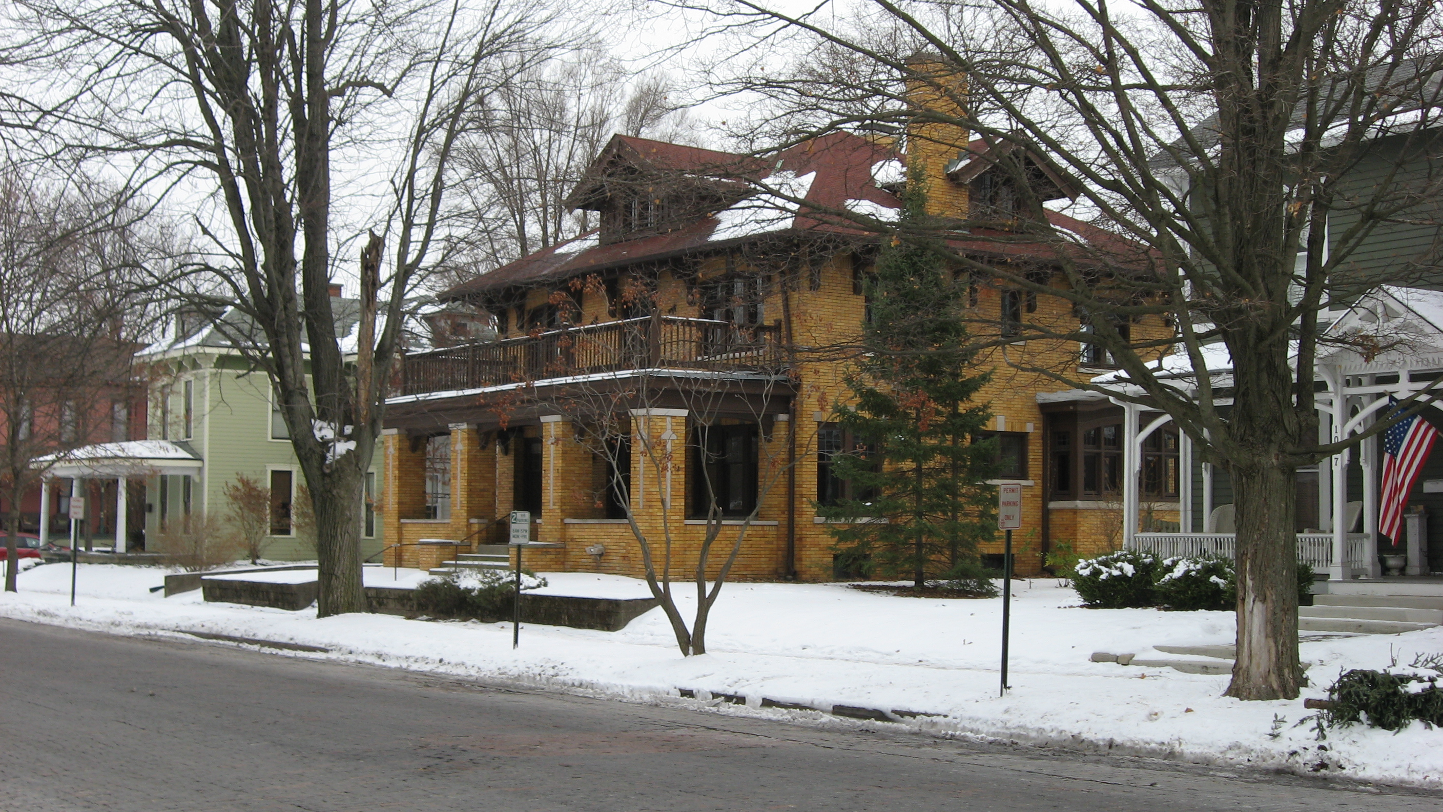 Houses on the southern side of the 1000 block of E. Logan Street in Noblesville, Indiana, United States. This block is part of the Conner Street Historic District, a historic district that is listed on the National Register of Historic Places.